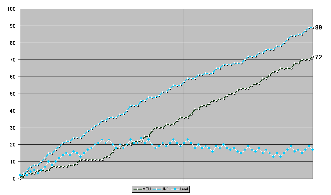 Running score of the 2009 NCAA Men's Division I Basketball Championship Game|. Reference: CBS Sports